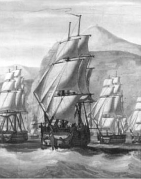 "East Indiaman 'Windham' set sails from Cape Town" according to 'Historia de la Marina de Chile' by Carlos Lppez Urrutia in page 34